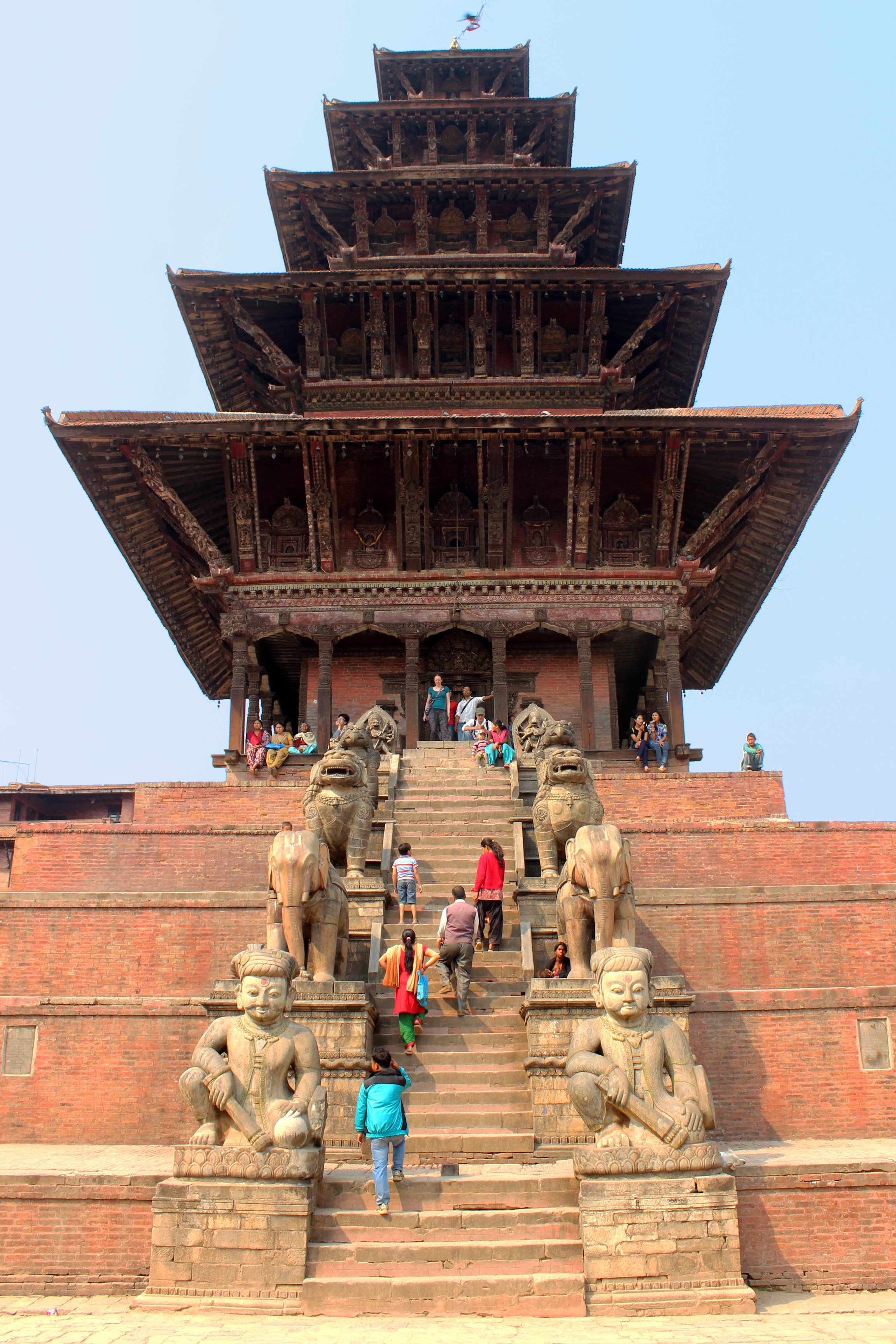 Nyatapola temple, at the Taumadhi Thol, in Bhaktapur, Nepal